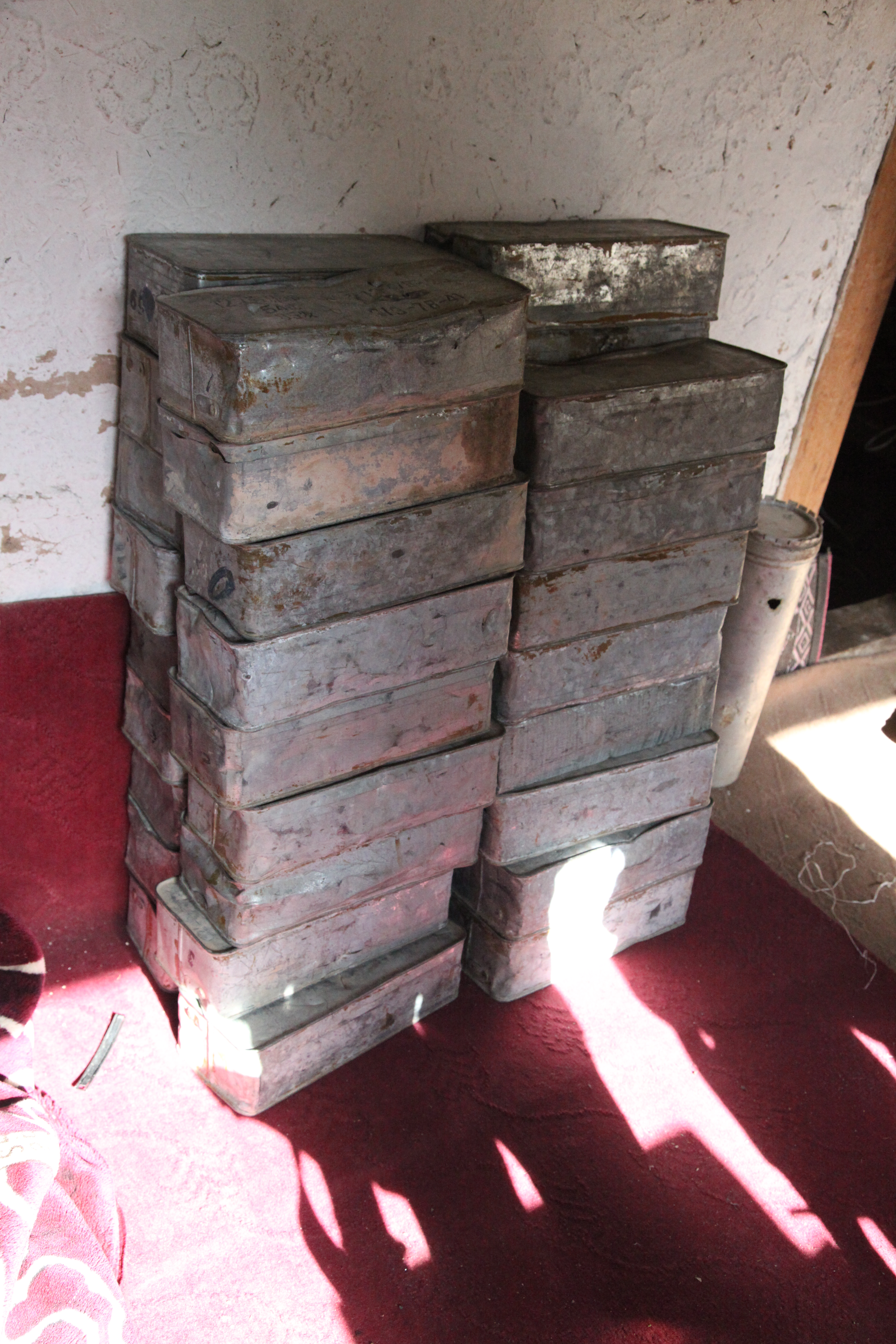 Original caption: Operation Mountain Fire Bins of ammunition containing thousands of AK-47 rounds were left behind by the Taliban in Barge Matal, Afghanistan. Afghan and U.S. forces discovered the ammunition during Operation Mountain Fire, July 13. Operation Mountain Fire is a mission using Soldiers from both U.S. and Afghan forces to rid the town of Barge Matal of Taliban. Photo ID: 188097 Location: Barge Matal, AF